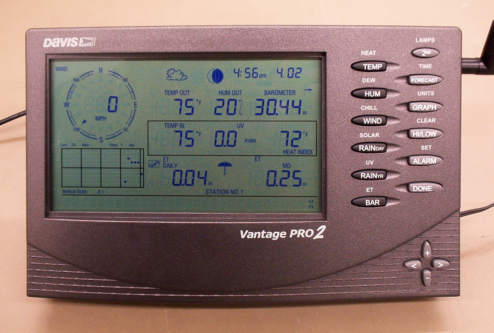 Davis Instruments Vantage Pro2 weather station console/receiver.